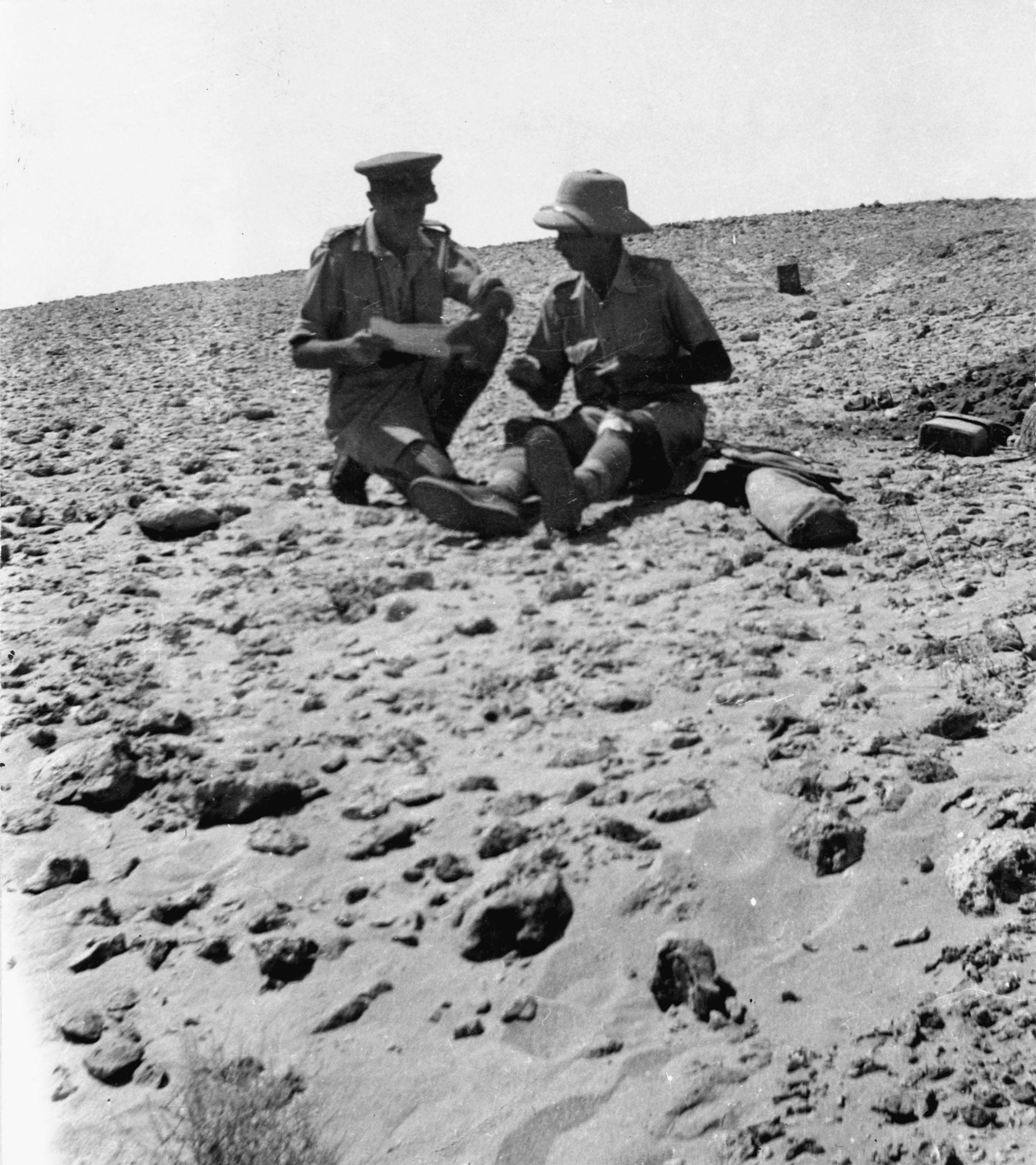 Brigadier Howard Karl Kippenberger and Lieutenant-Colonel S F Allen at El Mreir, Egypt. Photograph taken by F G Ross (a driver) on 5 July 1942. Ross, F G fl 1942. Brigadier Howard Karl Kippenberger and Lieutenant-Colonel S F Allen at El Mreir, Egypt. New Zealand. Department of Internal Affairs. War History Branch :Photographs relating to World War 1914-1918, World War 1939-1945, occupation of Japan, Korean War, and Malayan Emergency. Ref: PAColl-5547-006. Alexander Turnbull Library, Wellington, New Zealand. The author of this work was a member of the NZ Military Forces and thus copyright in this work rests with the Crown. The work has licenced for re-use under CC 3.0. Refer to source website webpage on copyright information